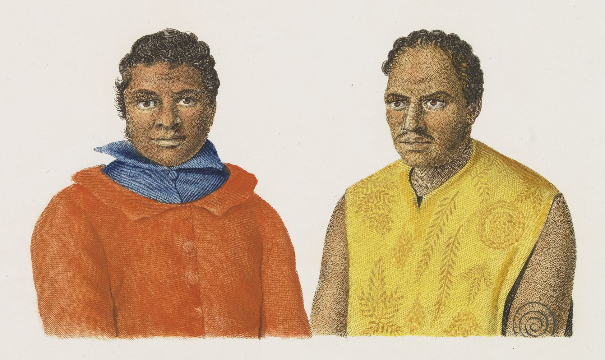 Chefs de l'Isle Borabora. (Isles de la Société) 1. Maï 2. Téffaaora. Depiction from "Voyage autour du Monde, exécuté par ordre du Roi, sur la corvette de sa Majesté, La Coquille pendant les années 1822, 1823, 1824 et 1825. Hydrographie, Atlas." by Louis Isidore Duperrey (1786-1865).